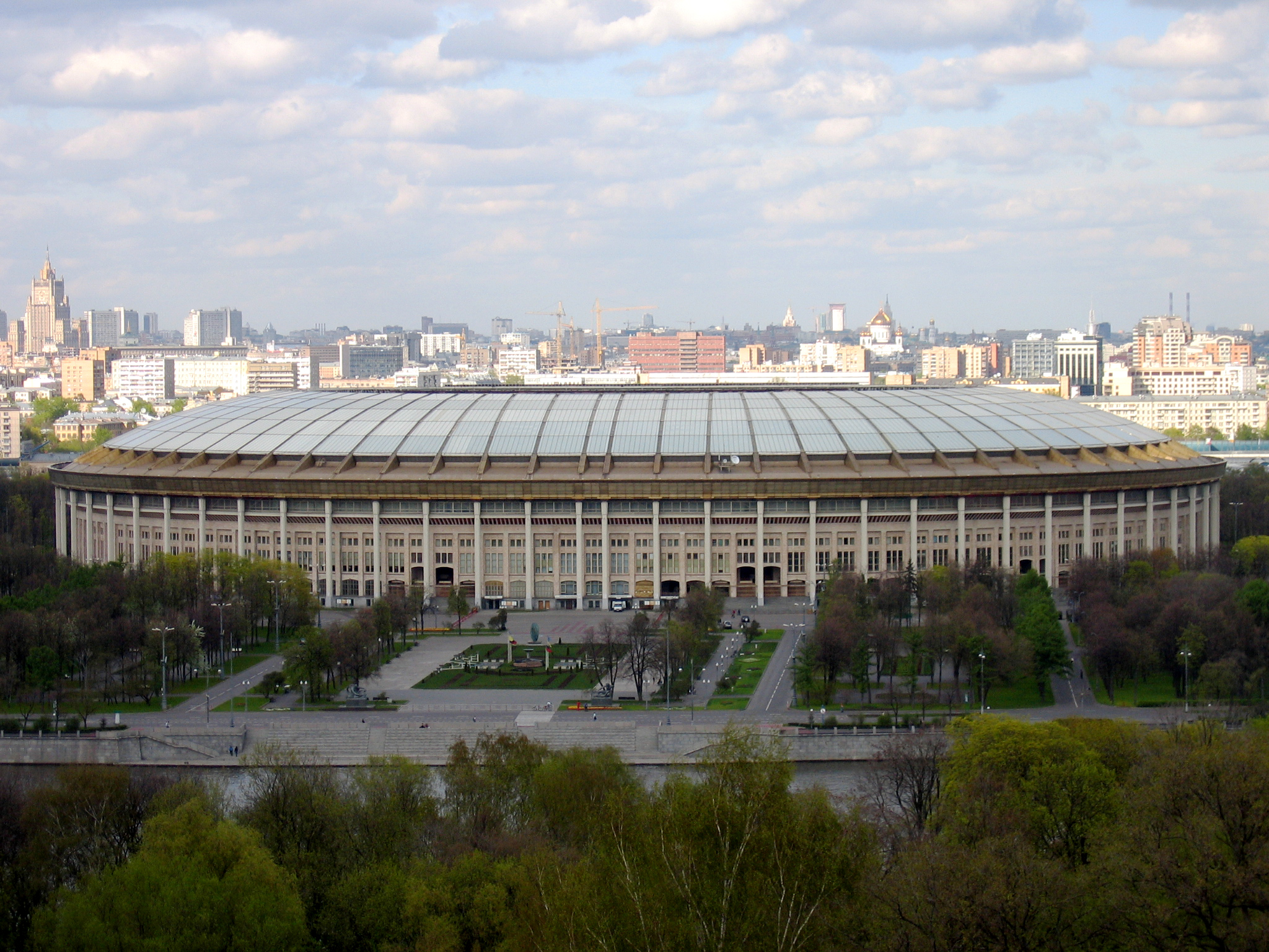 Luzhniki Stadium in Moscow, Russia. View from the Sparrow Hills. Photo edited by Calibas.